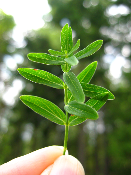 Leaves of the plant St John’s wort (Hypericum perforatum). The species name 'perforatum' refers to the presence of small oil glands in the leaves that look like windows (translucent dots), which can be seen when they are held against the light.